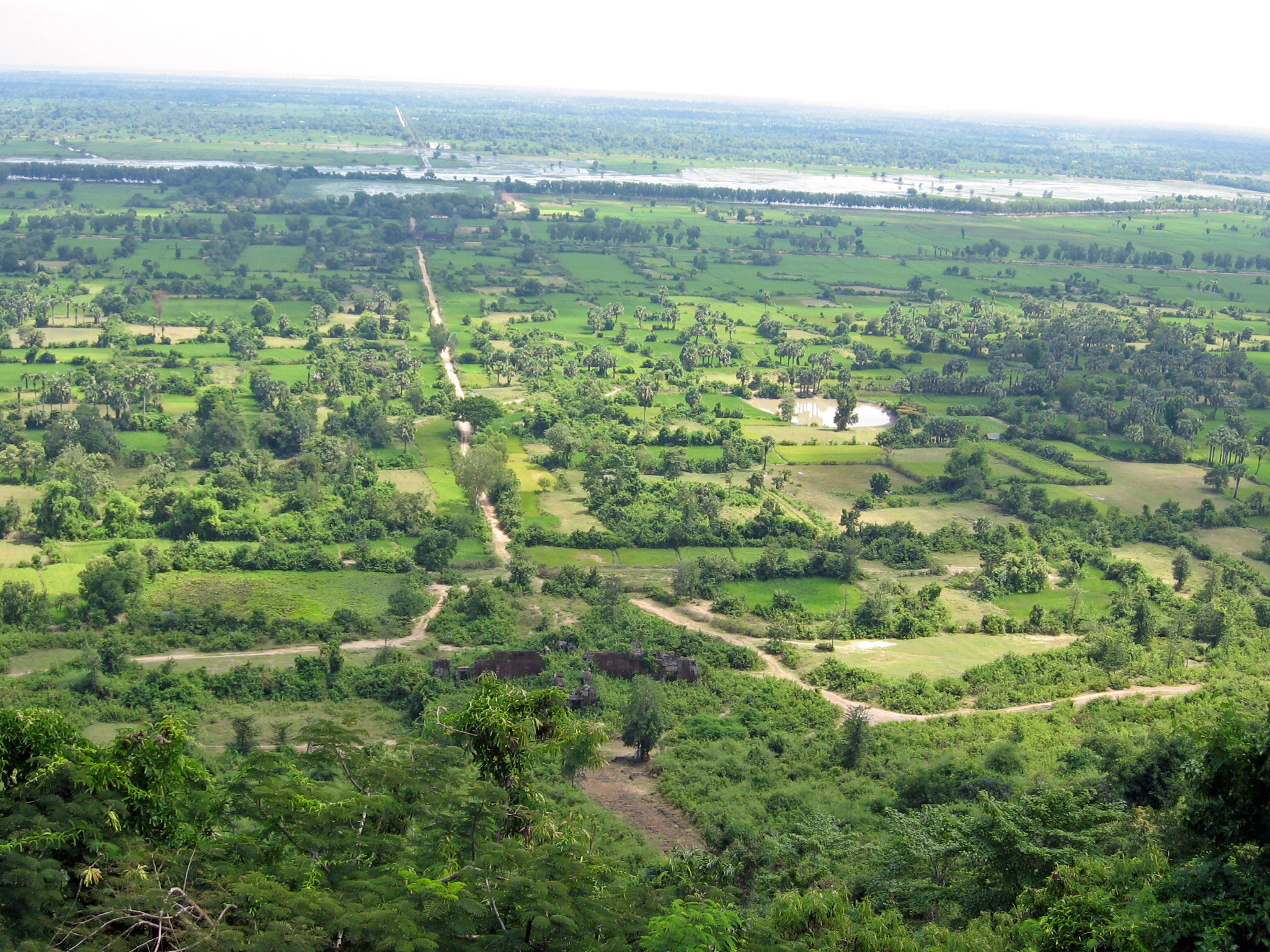 Chisor Mountain (Phnom Chisor), near Phnom Penh